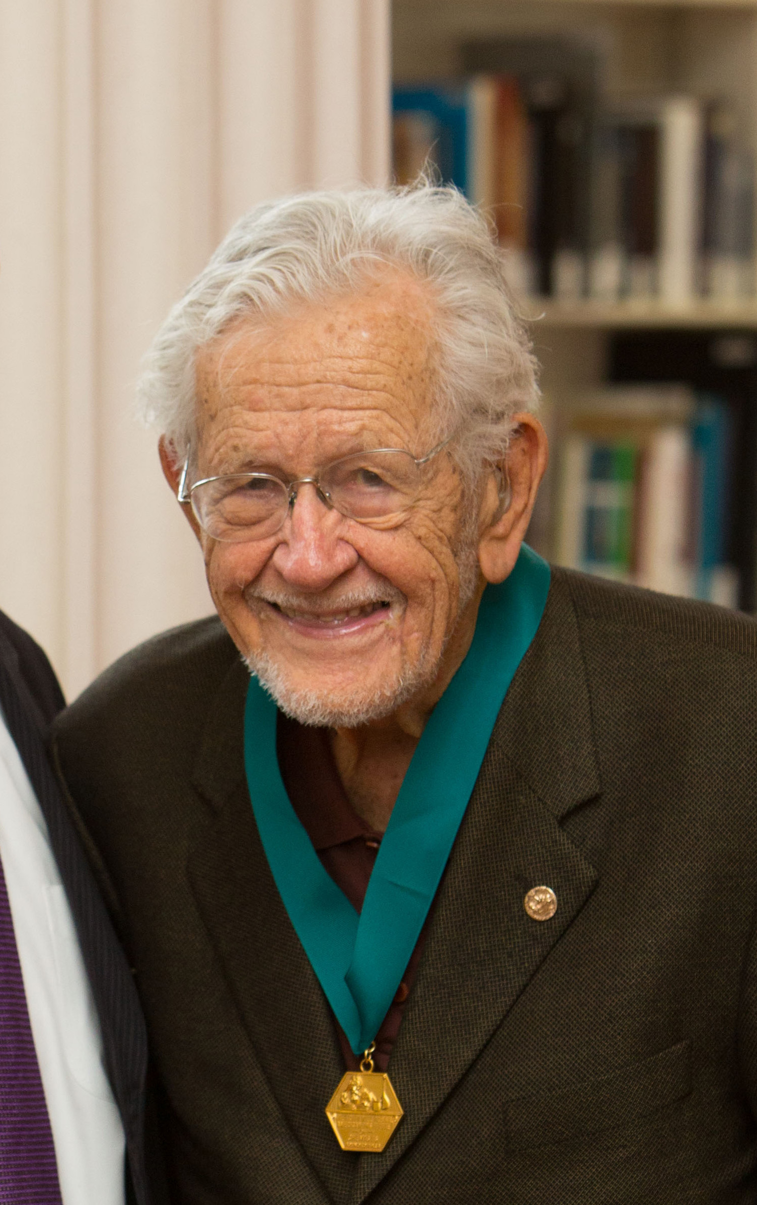 Photograph of John D. Roberts, Institute Professor of Chemistry Emeritus at the California Institute of Technology, who received the 2013 American Institute of Chemists (AIC) Gold Medal, 4 April 2013 at Chemical Heritage Day at the Chemical Heritage Foundation, Philadelphia, PA, USA.